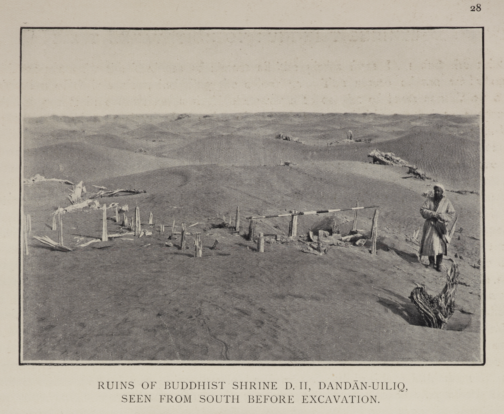 Ruins of Buddhist shrine D.II., Dandan-Uiliq, seen from south before excavation.